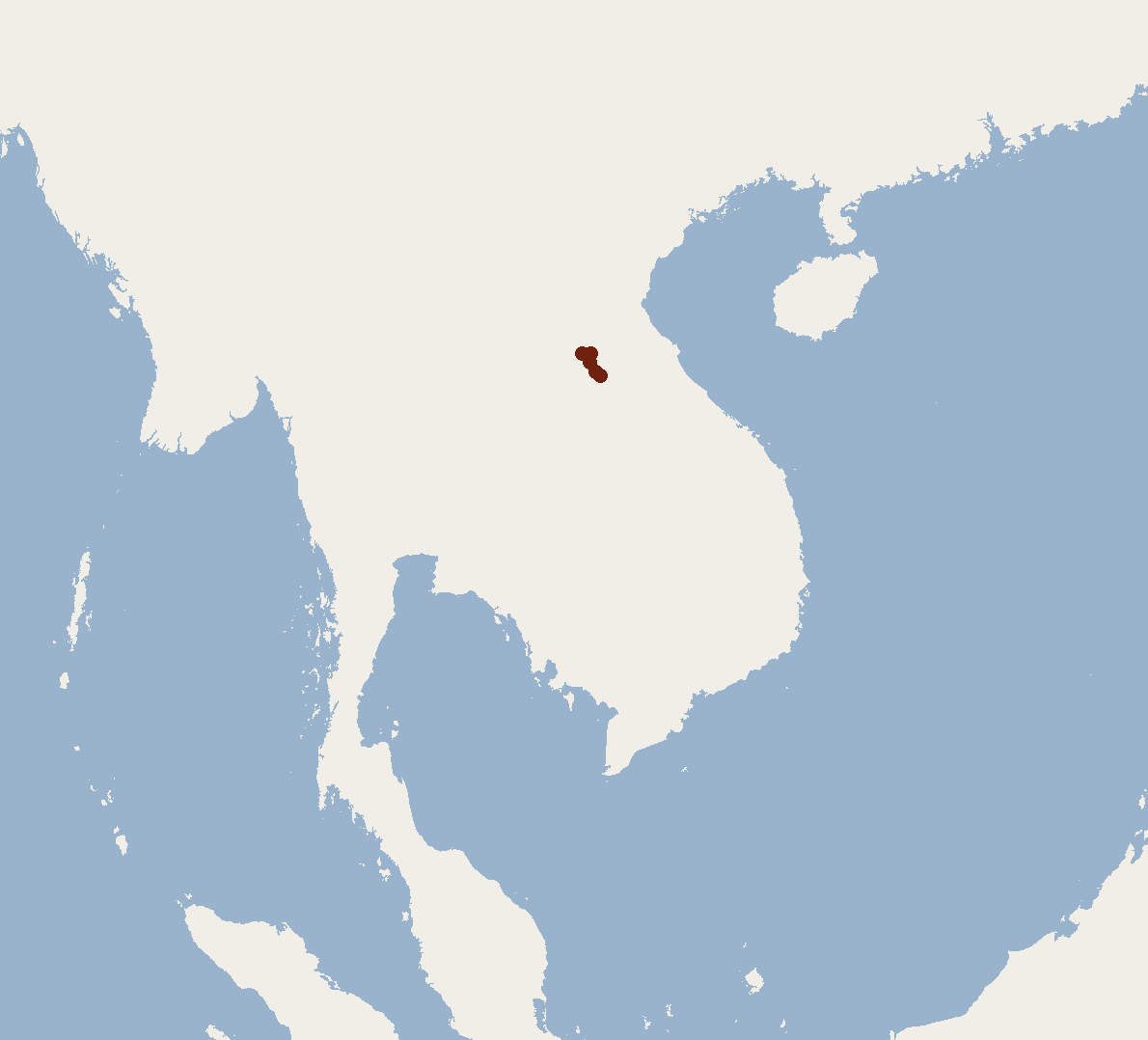 Geographical distribution of Laonastes aenigmamus according to Museum specimens.